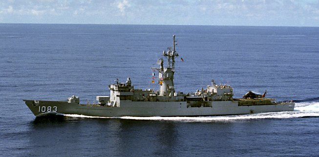 AA port view of Cook underway with the aircraft carrier USS Constellation (CV-64) battle group.